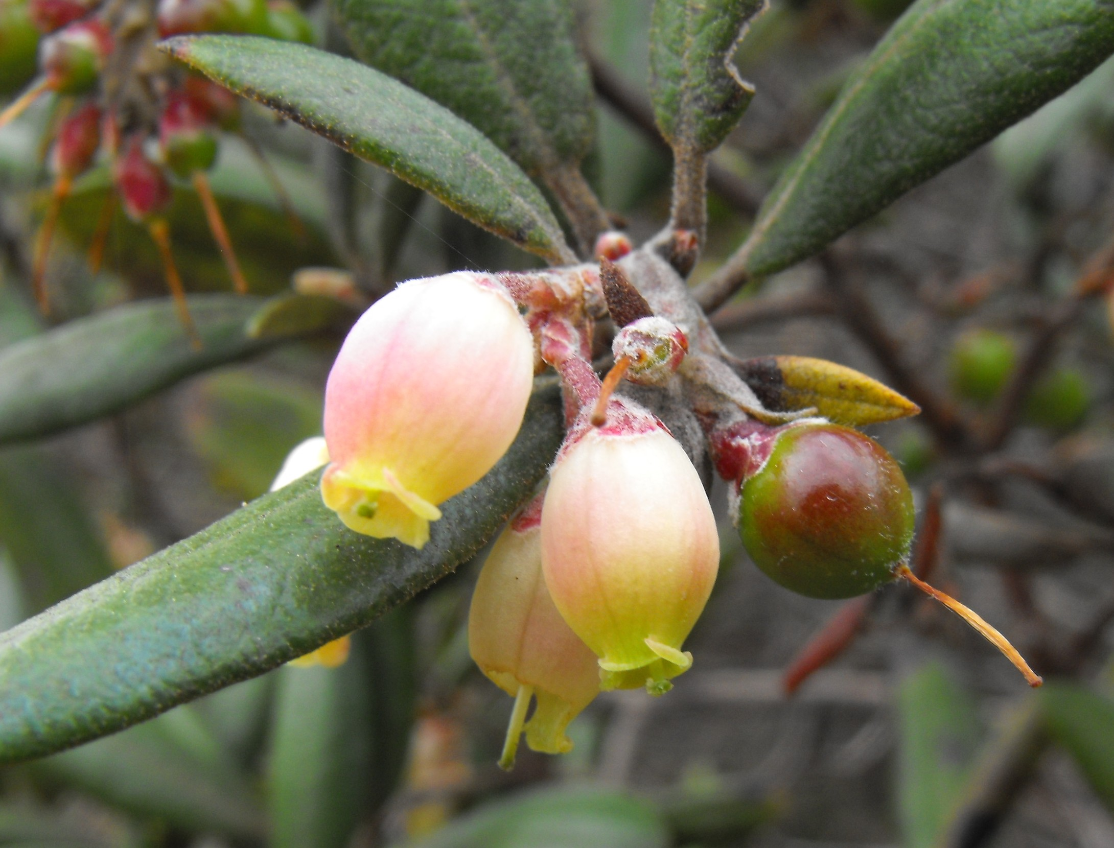 Xylococcus bicolor — Mission manzanita. • On Carmel Mountain, in the Carmel Mountain Preserve, San Diego, California.